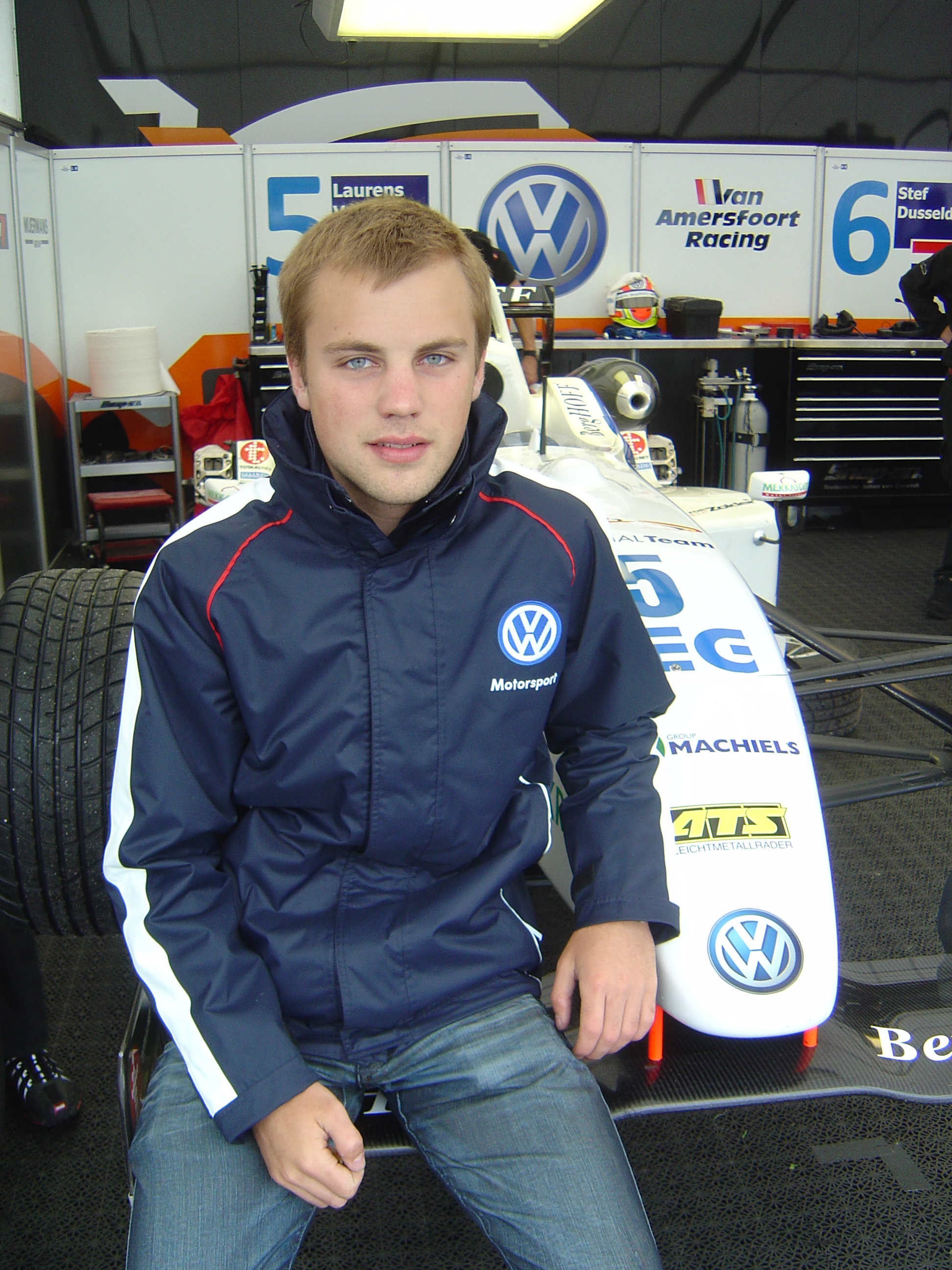 Laurens Vanthoor: the photo was taken during 2009's ADAC GT Masters race weekend at Hockenheim